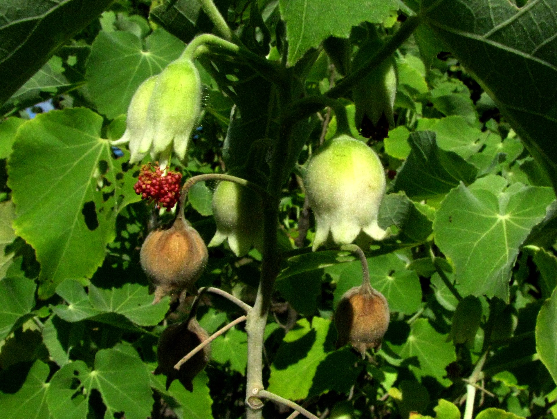 Hidden-petaled abutilon Malvaceae Endemic to the Hawaiian Islands (Lānaʻi only) Endangered Oʻahu (Cultivated)